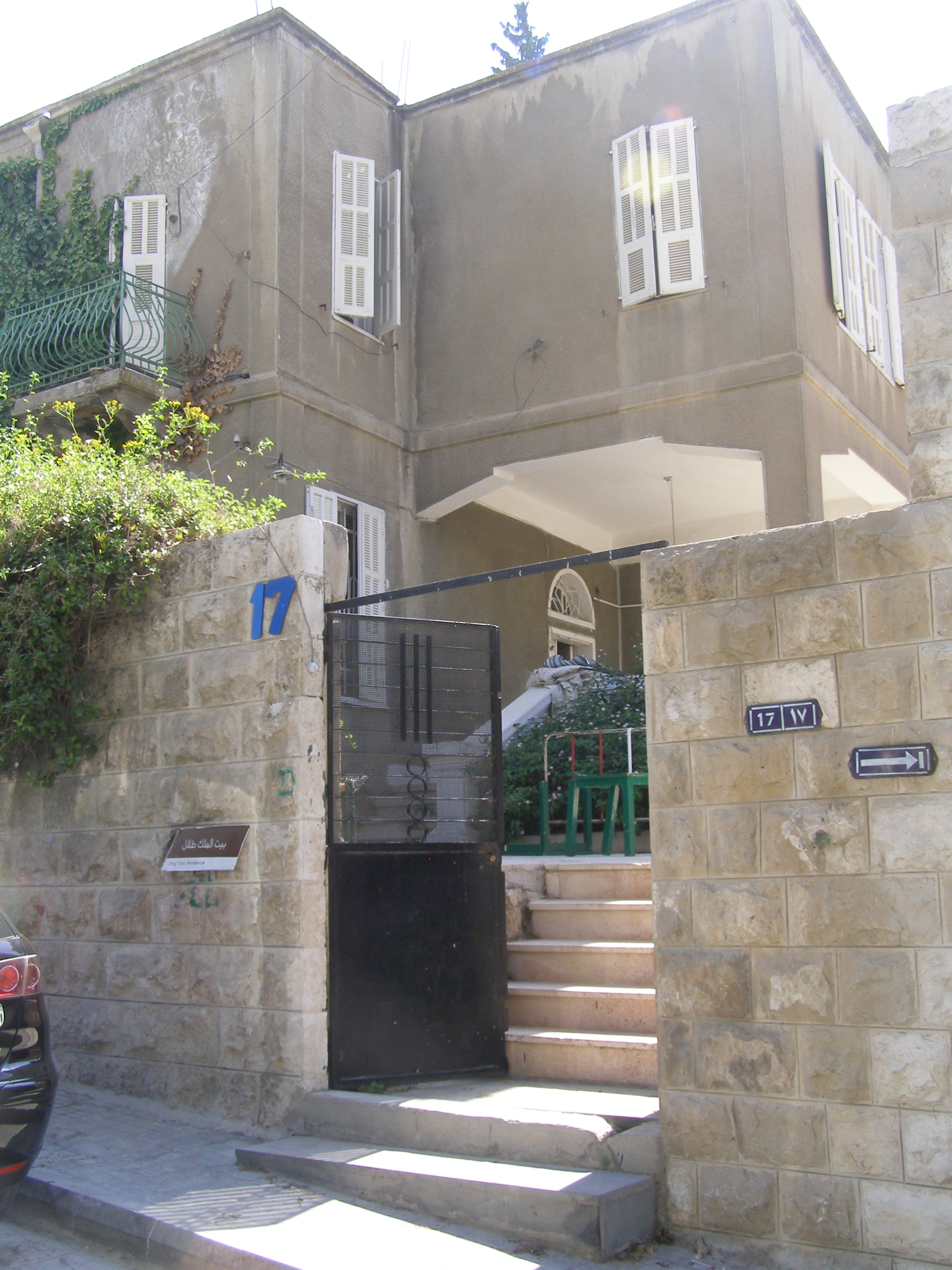 The house of the late King of Jordan Talal Bin Abdullah